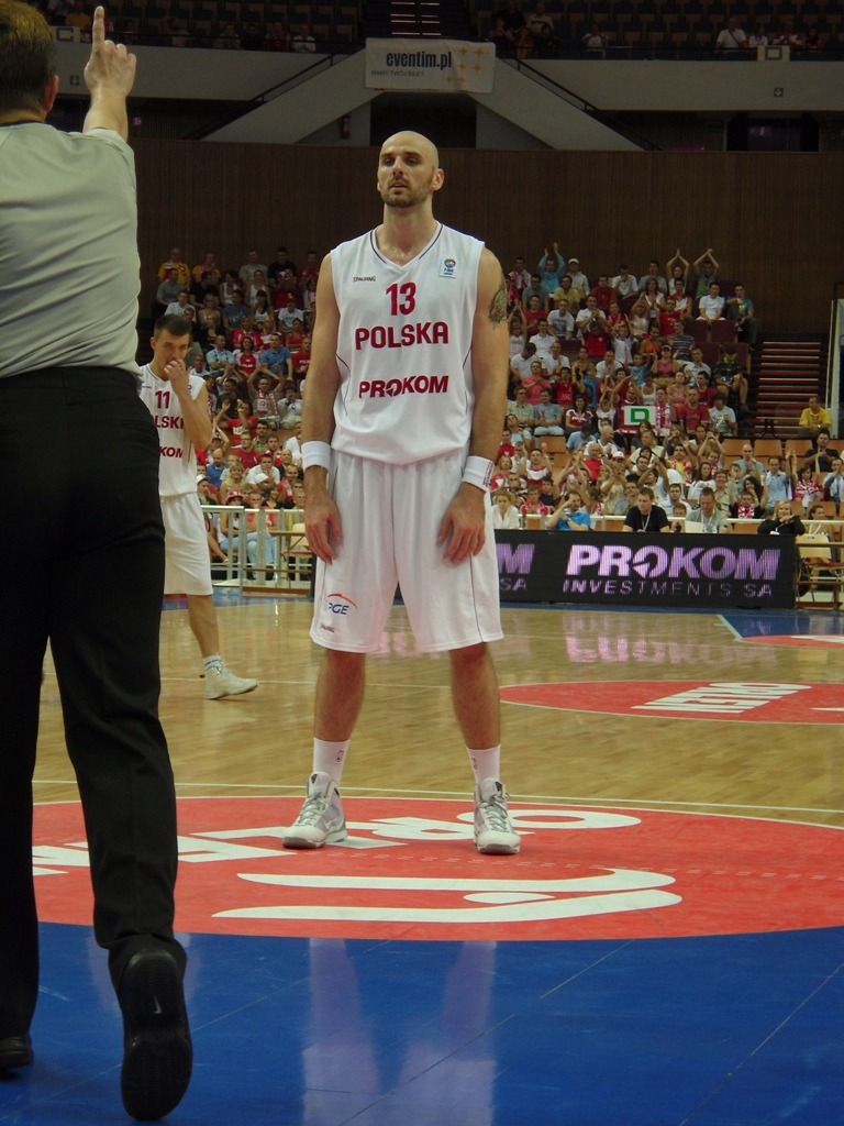 Poland basketball star Marcin Gortat preparing to shoot an free throw as an member of Poland national basketball team. Zdjęcie zrobione podczas meczu eliminacyjnego do Mistrzostw Europy w koszykówce mężczyzn Polska - Bułgaria w katowickim Spodku.